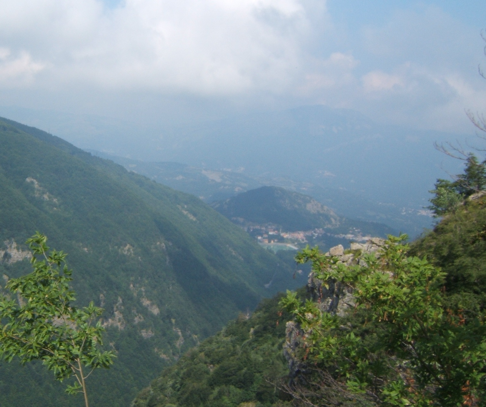 The town of Ligonchio seen from Ozola Valley.